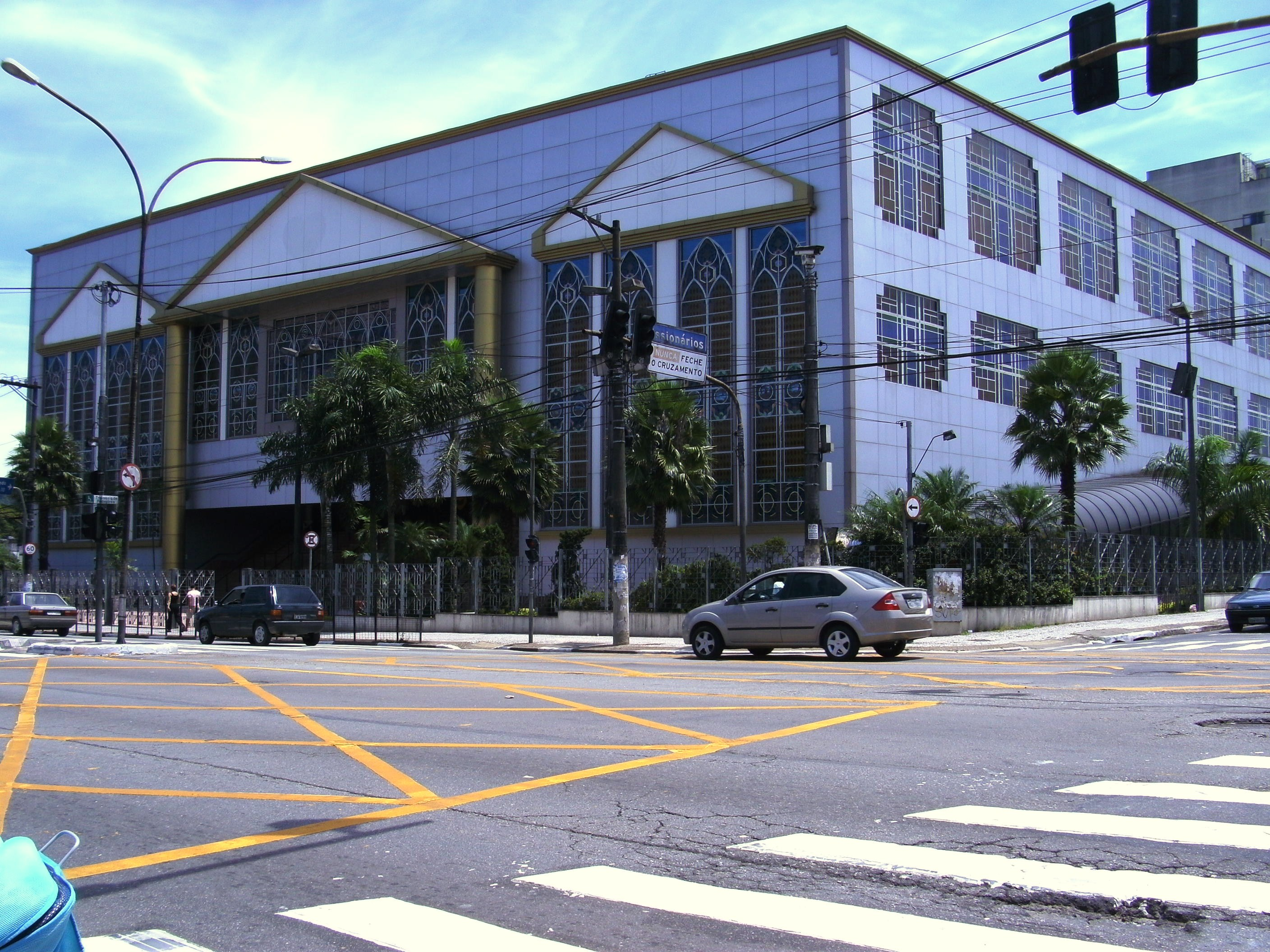 IURD SP Brazil